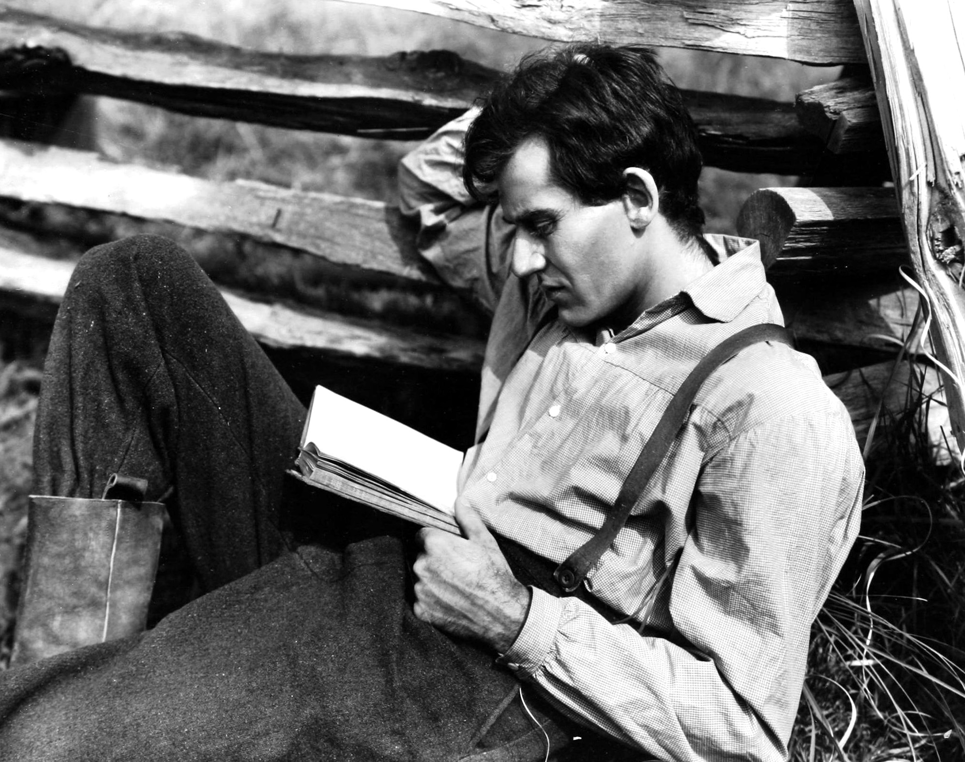 Promotional still of American actor Henry Fonda as Abraham Lincoln in the 1939 film Young Mr. Lincoln.